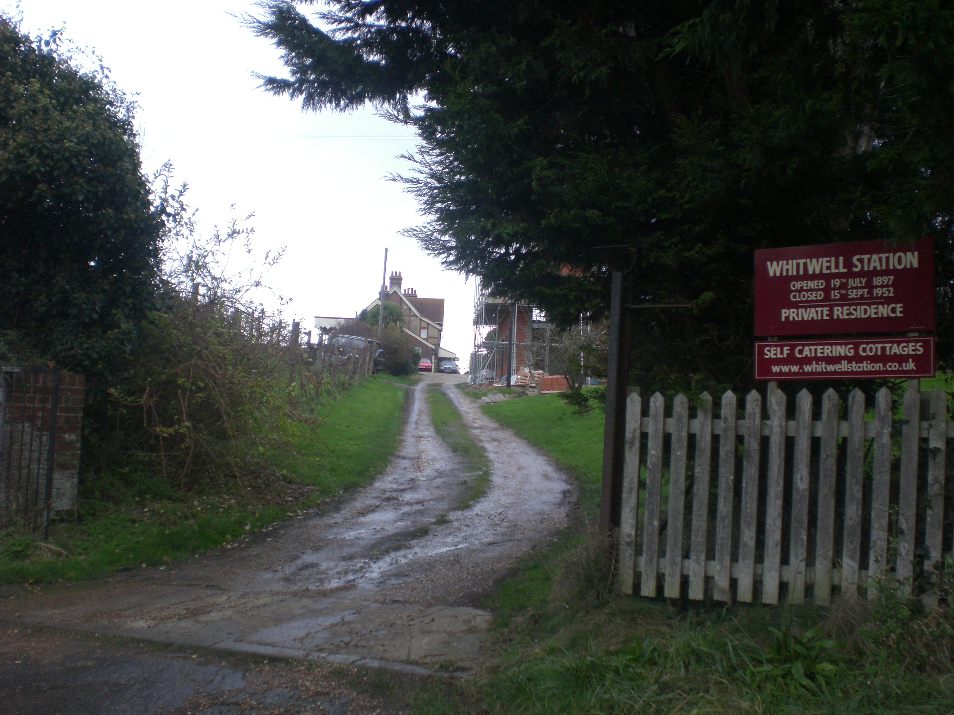 Whitwell railway station on the Isle of Wight. It is now a private residence, the railways having closed down many years ago.